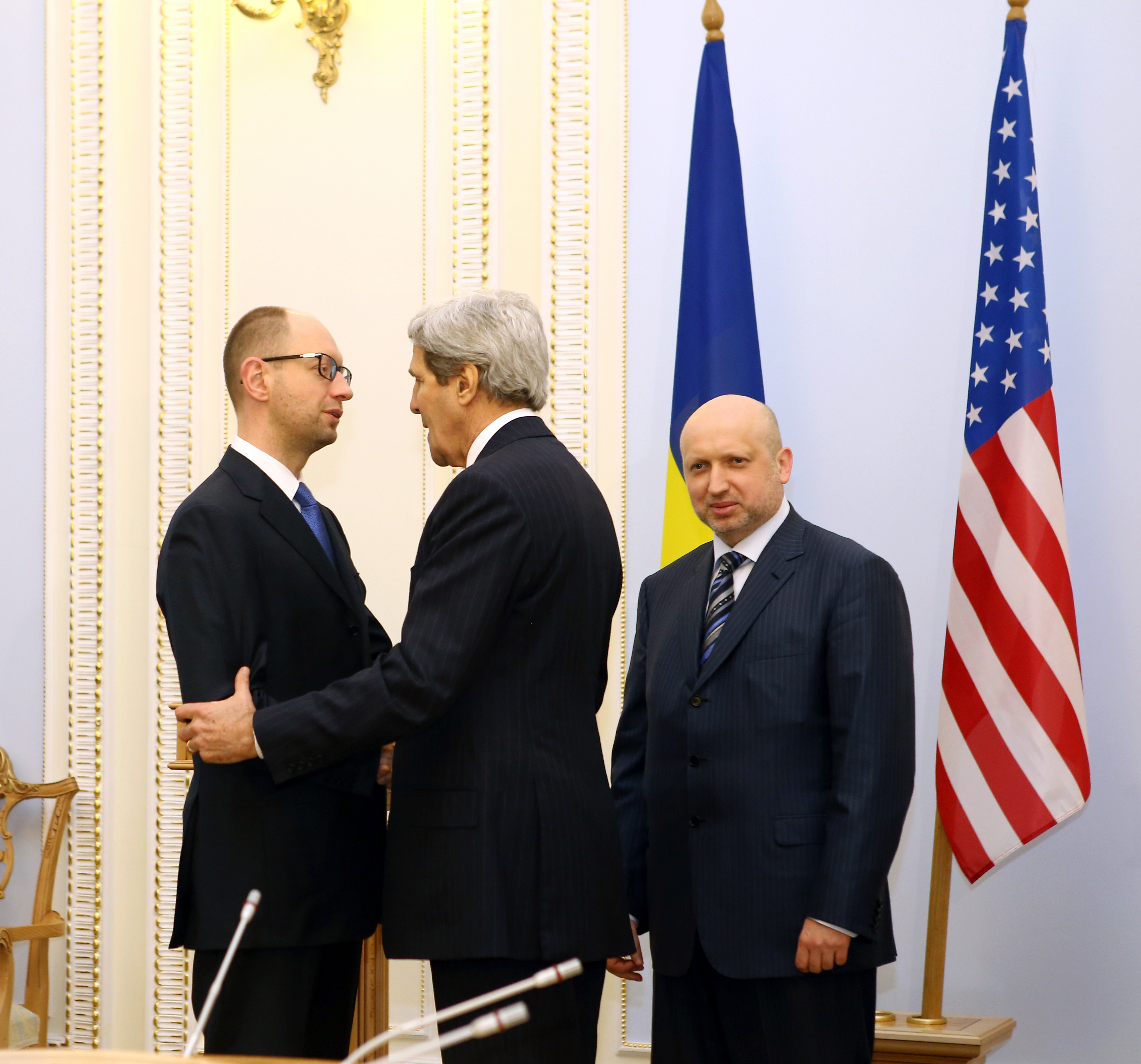 U.S. Secretary of State John Kerry meets with Ukraine's interim Prime Minister Arseniy Yatsenyuk and President Oleksandr Turchynov at the Verkhovna Rada in Kyiv, Ukraine, on March 4, 2014. [State Department photo/ Public Domain]